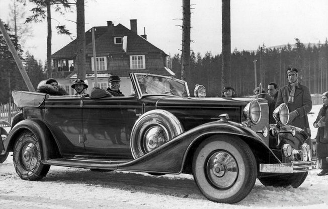 President of Poland Ignacy Mościcki with his spouse Maria and aide-de-camp Cpt. Józef Hartman.